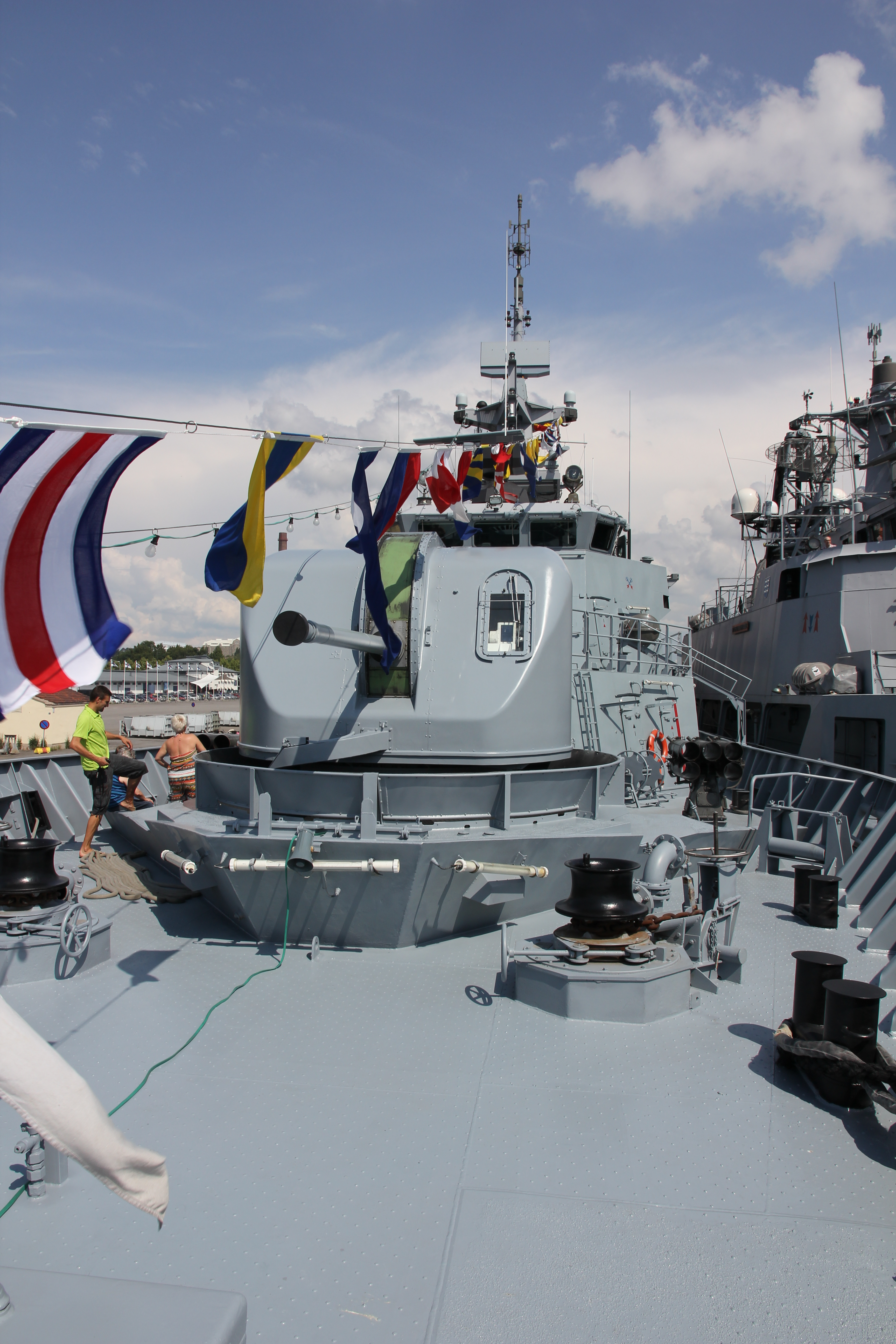 Finnish minelayer Uusimaa bow Bofors 57 mm Mk 1 gun. Photographed during Finnish Navy 2011 anniversary in Turku.